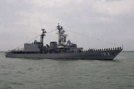 Japan strongly supported the Trafalgar 200 celebrations in the UK. The picture shows JS Yūgiri (DD-153) anchored in the Solent with crew lining the decks awaiting review by Elizabeth II onboard HMS Endurance during the international fleet review. Based on a picture from the Mobipocket ebook Trafalgar 200 Through the Lens. ISBN 0955300401.